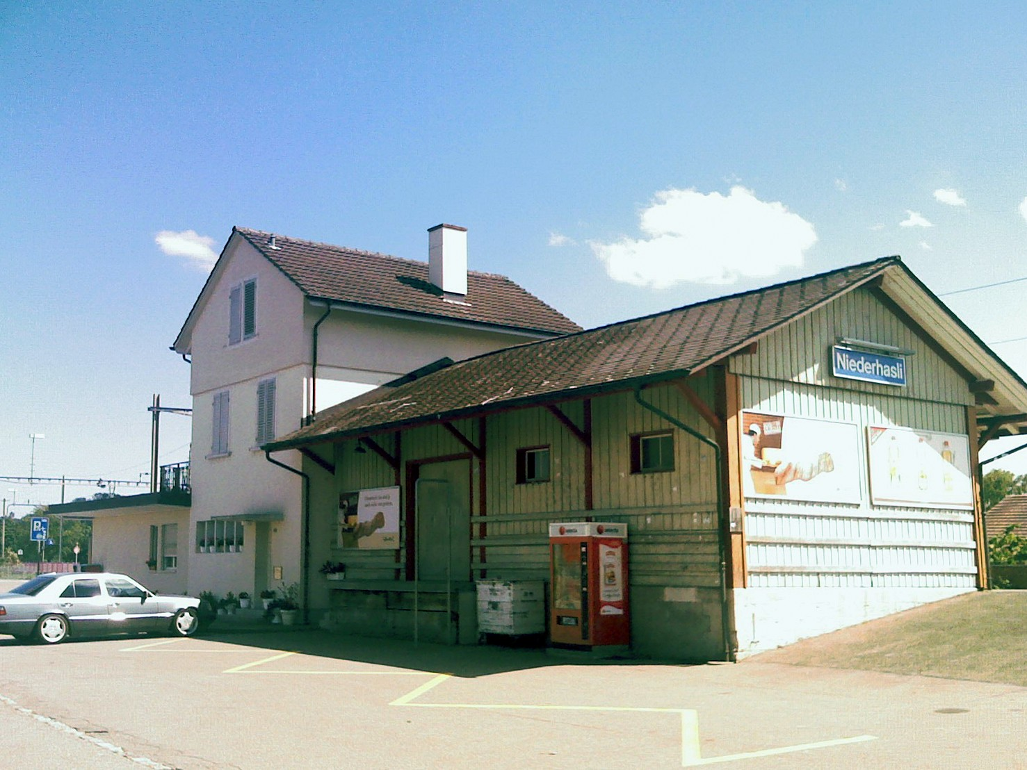 Train station of Niederhasli, canton of Zürich, SwitzerlandEsperanto: Stacidomo de Niederhasli, Kantono Zuriko, Svislando